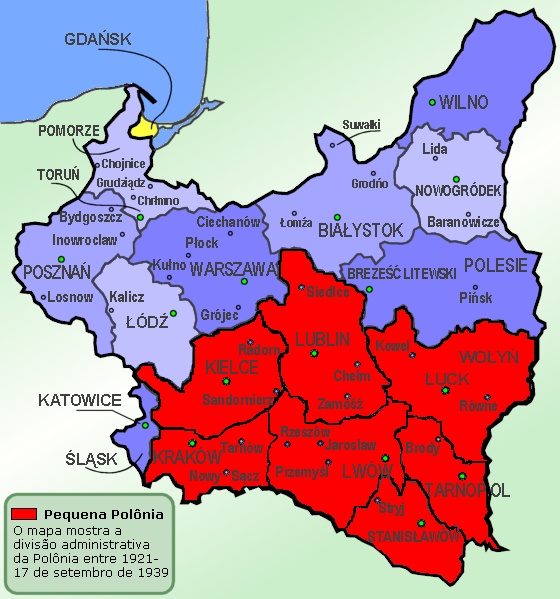 Lesser Poland during the interwar period (II Republic), 1921- 17 September 1939